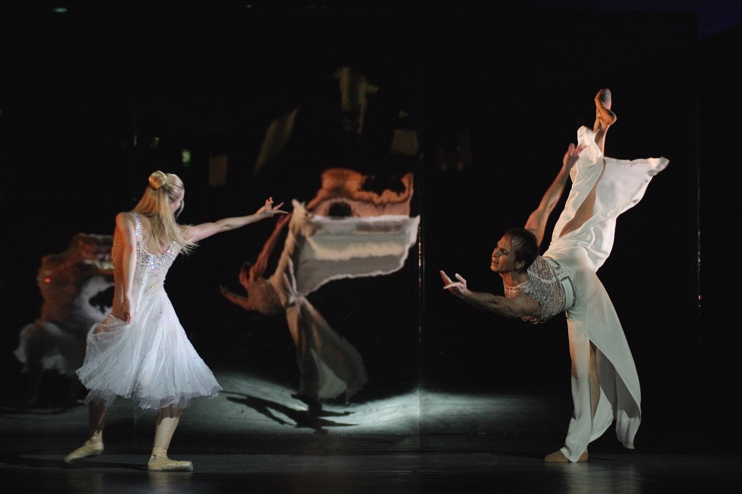 "Tristan" ballet by Krzysztof Pastor, Polski Balet Narodowy, dancers: Izabela Milewska & Jan-Erik Wikström, costumes by Maciej Zień